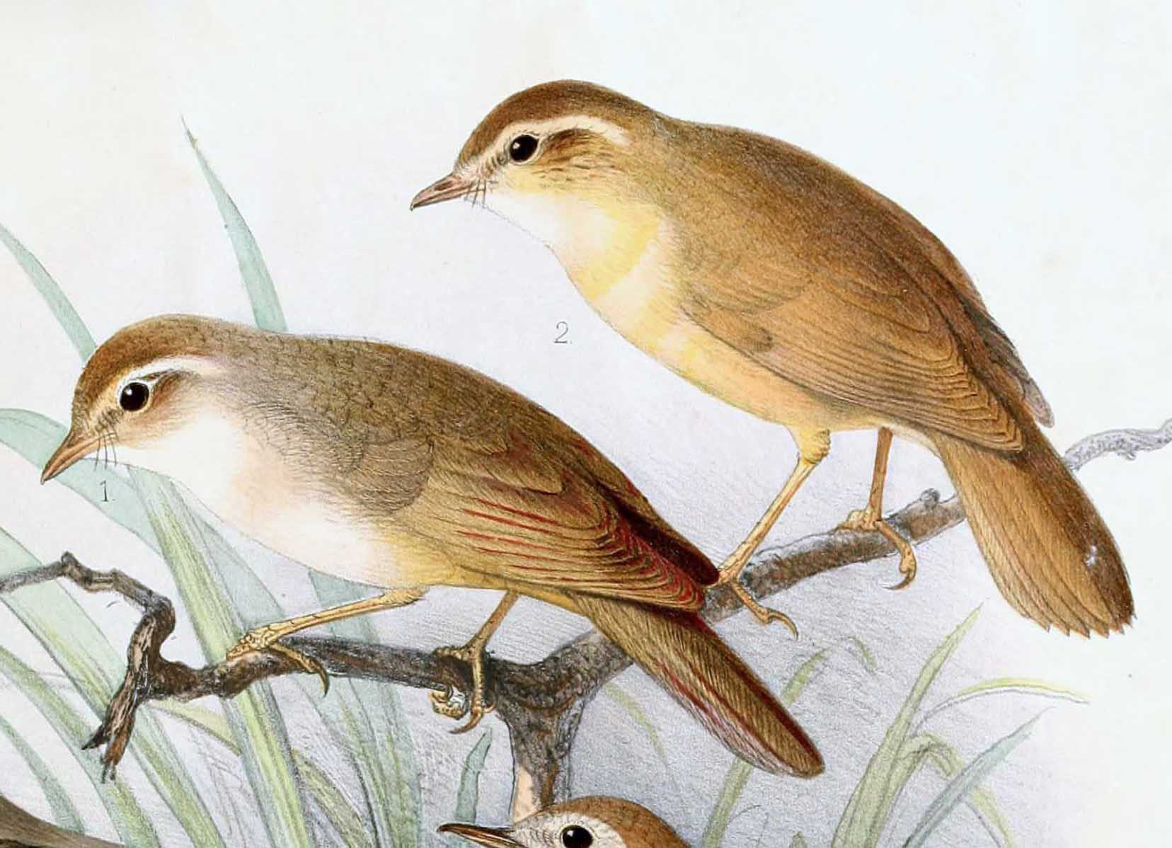 « Lusciniola (Herbivocula) schwarzi » = Phylloscopus schwarzi (Radde's Warbler) - males